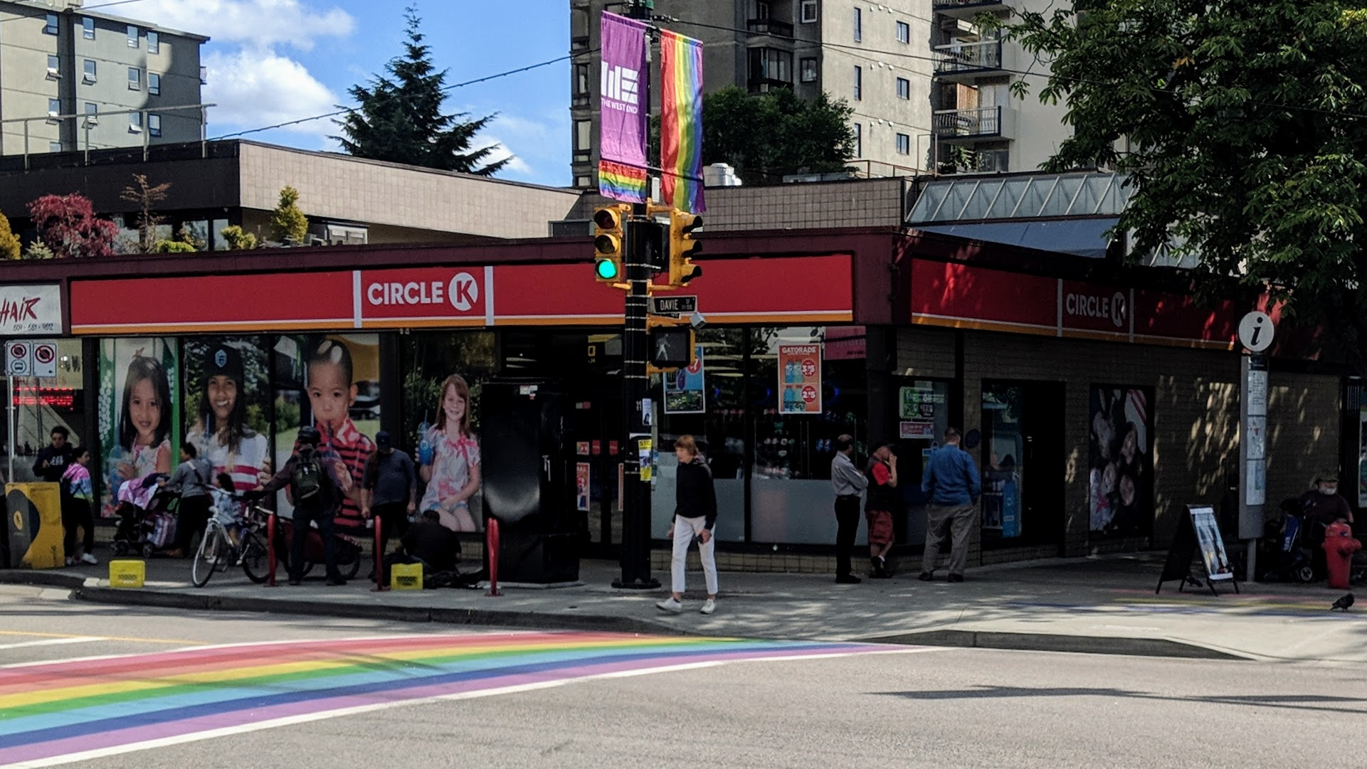 Circle K convenience store on Davie Street in Vancouver, Canada. June 2019.